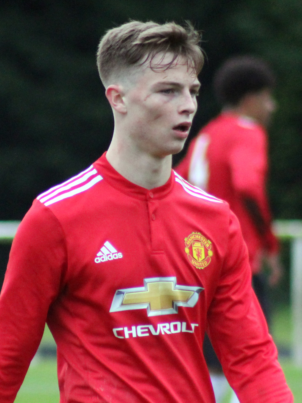 Blackburn Rovers U18s 1-4 Manchester United U18s U18 Premier League North Saturday 18 November Blackburn Rovers Training Centre